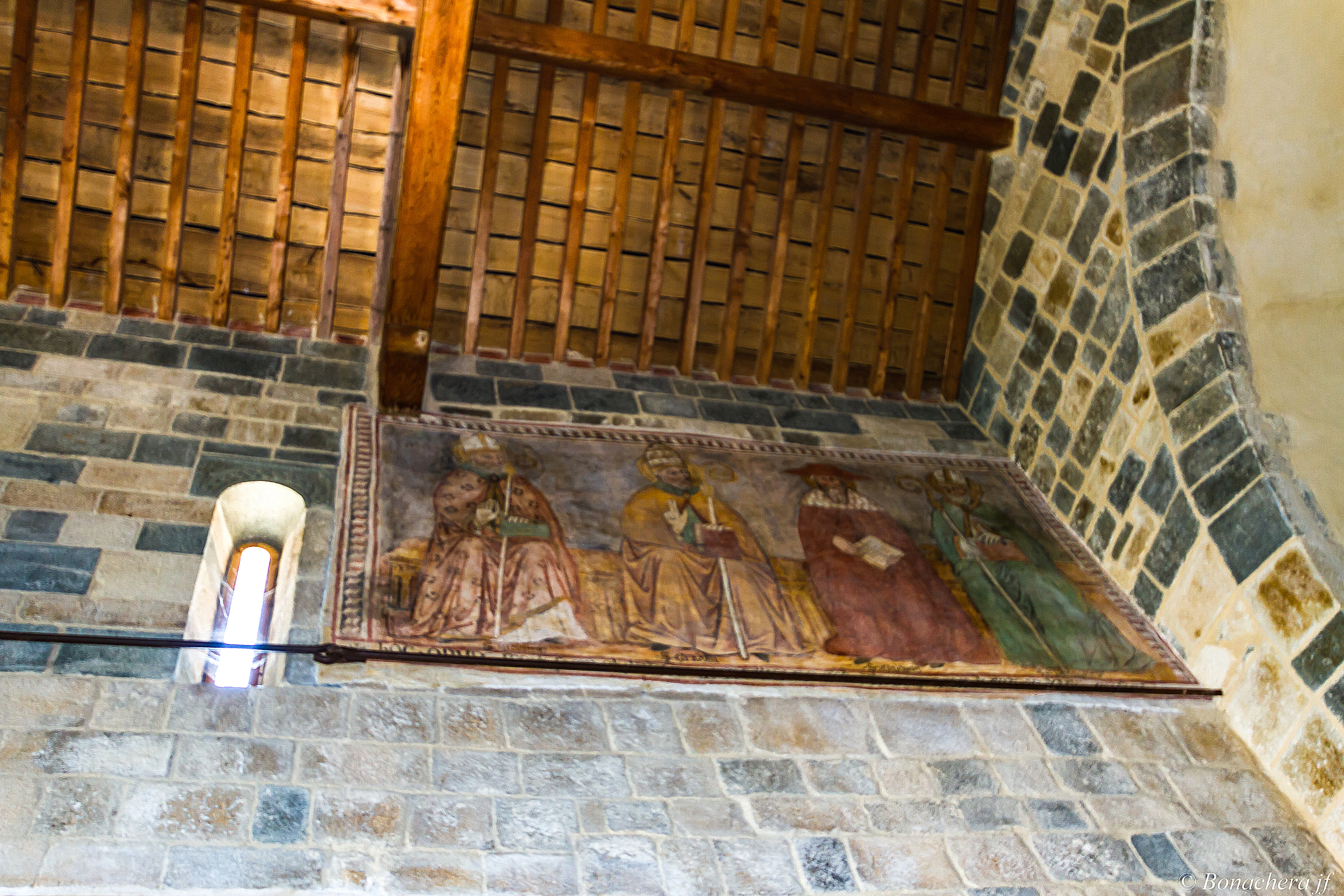 les 4 docteurs de l'èglise, St Augustin, Gregoire, Jerome et Ambroise, tenant une bible sur leurs genoux. (1458) oeuvre classée